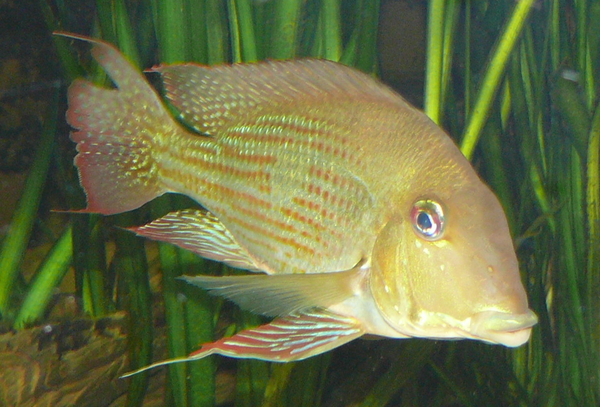 Geophagus species at Berlin Aquarium, Germany. This is a member of the G. surinamensis species complex (not G. surinamensis itself)